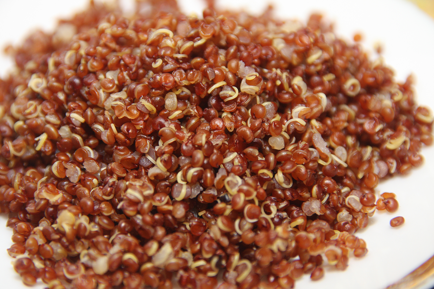 cooked red quinoa